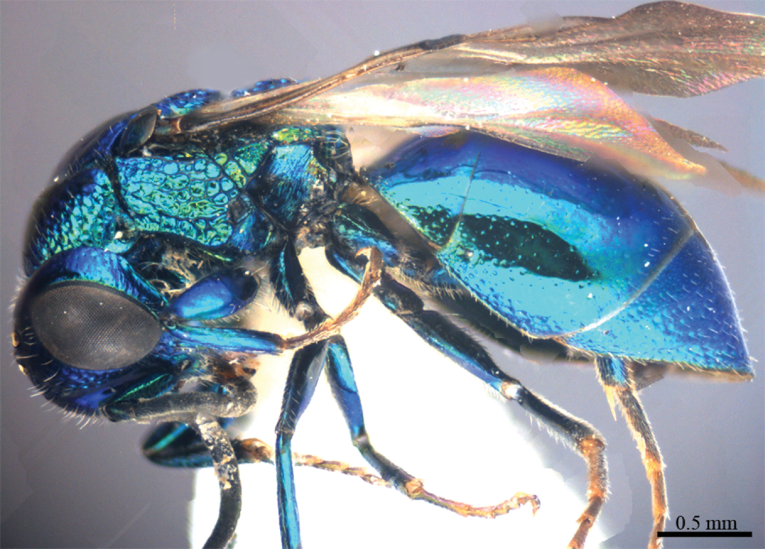 Omalus helanshanus (Wei, Rosa, Liu & Xu, 2014), holotype, female. Habitus lateral.